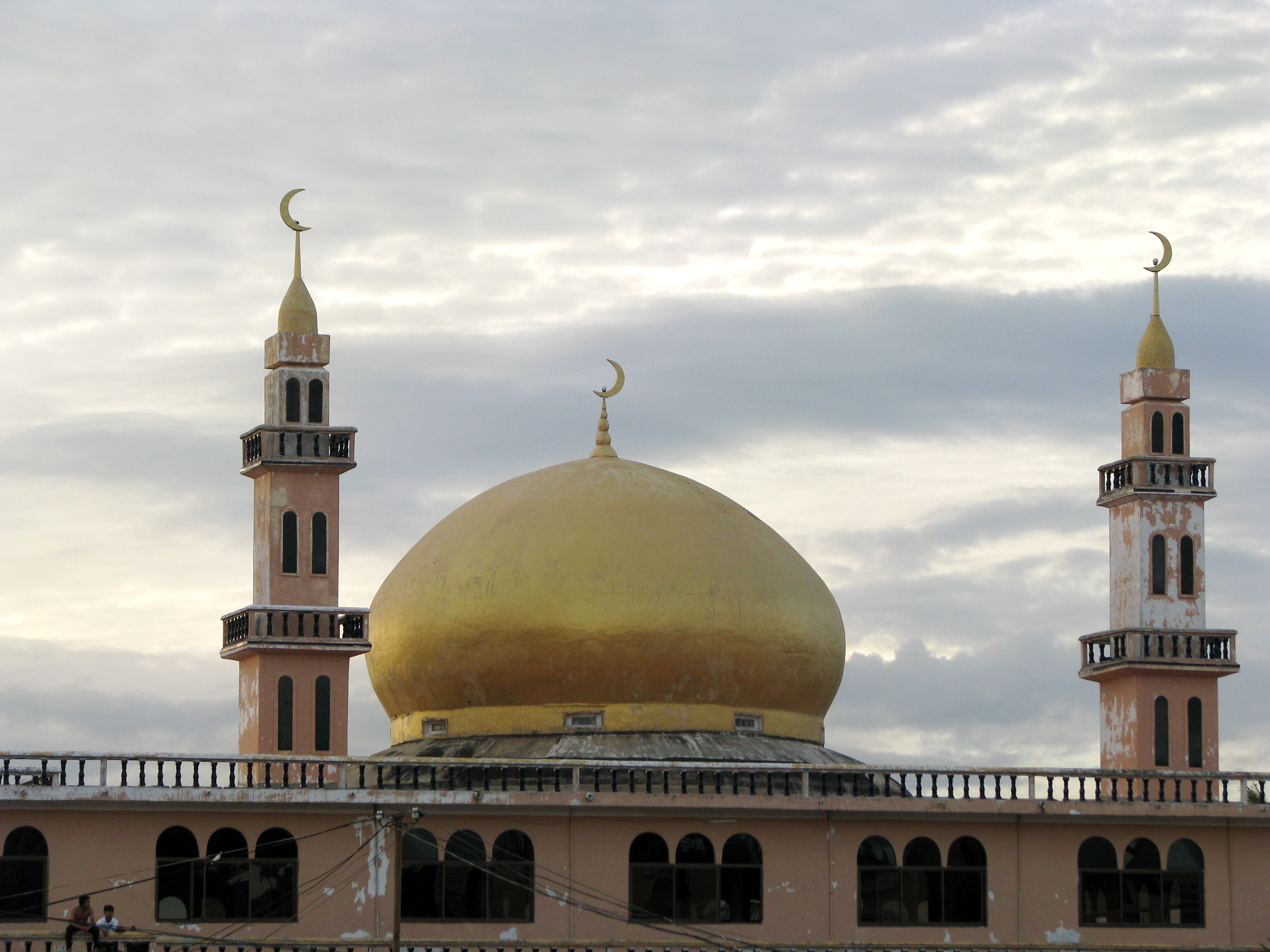 Al-Serkal Mosque The ancient Mosque